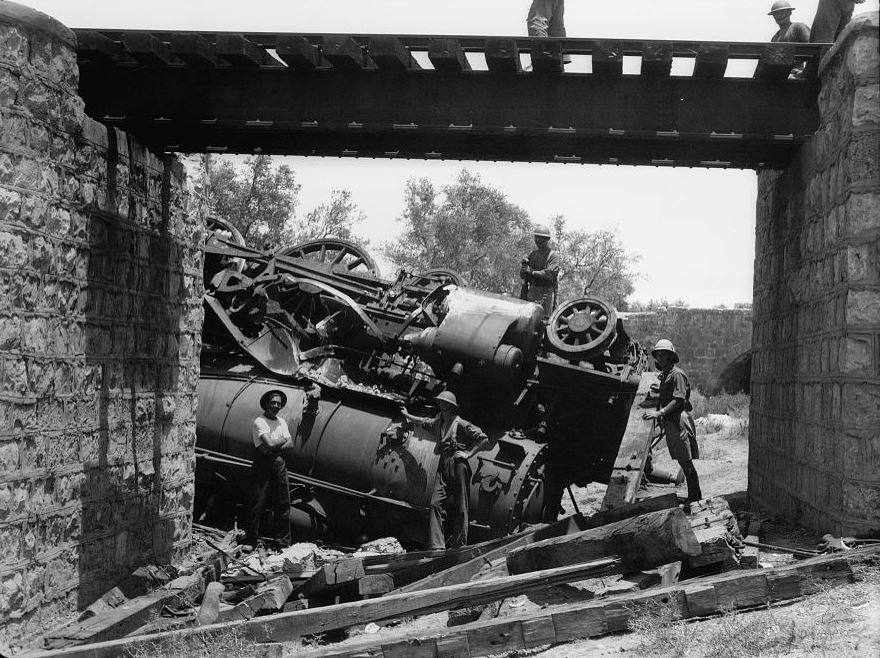 Palestine Railways Baldwin steam locomotive after being wrecked by Arab rebels in 1936